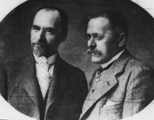 George Coşbuc (1866 - 1918) and Ion Luca Caragiale (1852 - 1912)